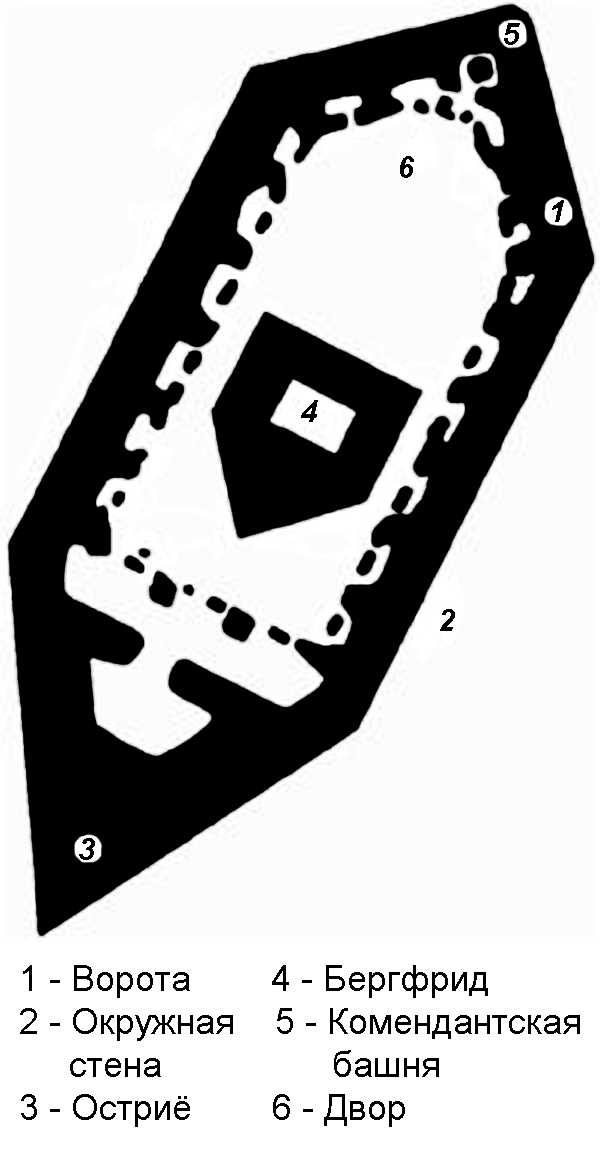 Plan of Burg Pfalzgrafenstein